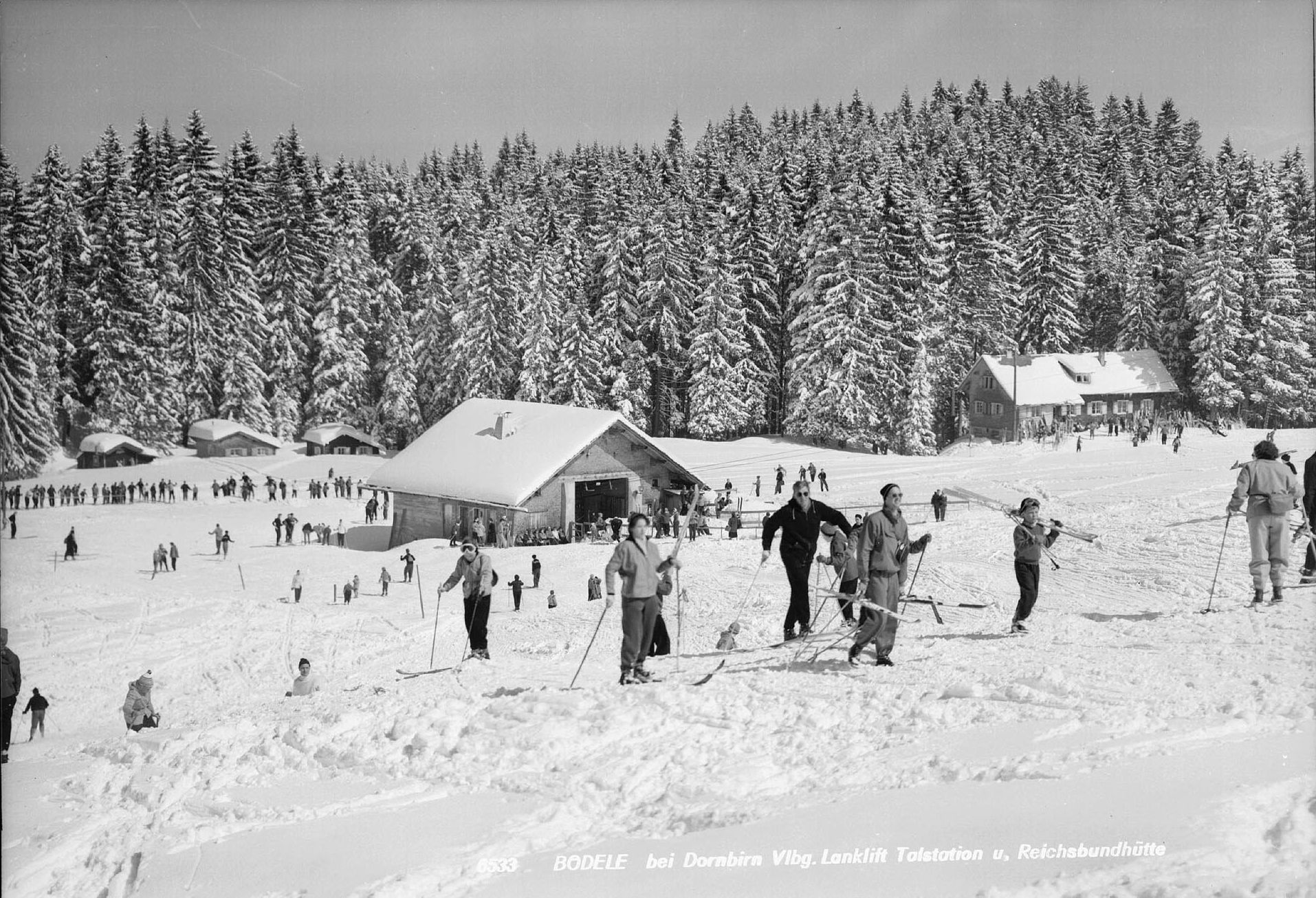 The old Lanklift (middle) and Reichsbundhuette (right) around 1960. Since 2005 called "Dornbirner Huette" (Dornbirner hut). Photographer: Risch-Lau. Website volare